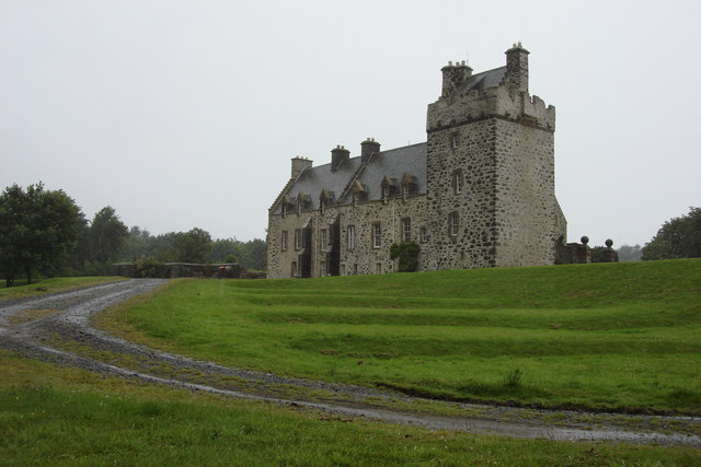 Lochnaw Castle Lochnaw Castle (in the pouring rain), home (once upon a time) of the Agnew family. The oldest bit is the tall tower, which is 16th century. It was an hotel for a while, but had stopped being so when I arrived there to stay recently! It is now a private home again (with a very long and muddy drive!).